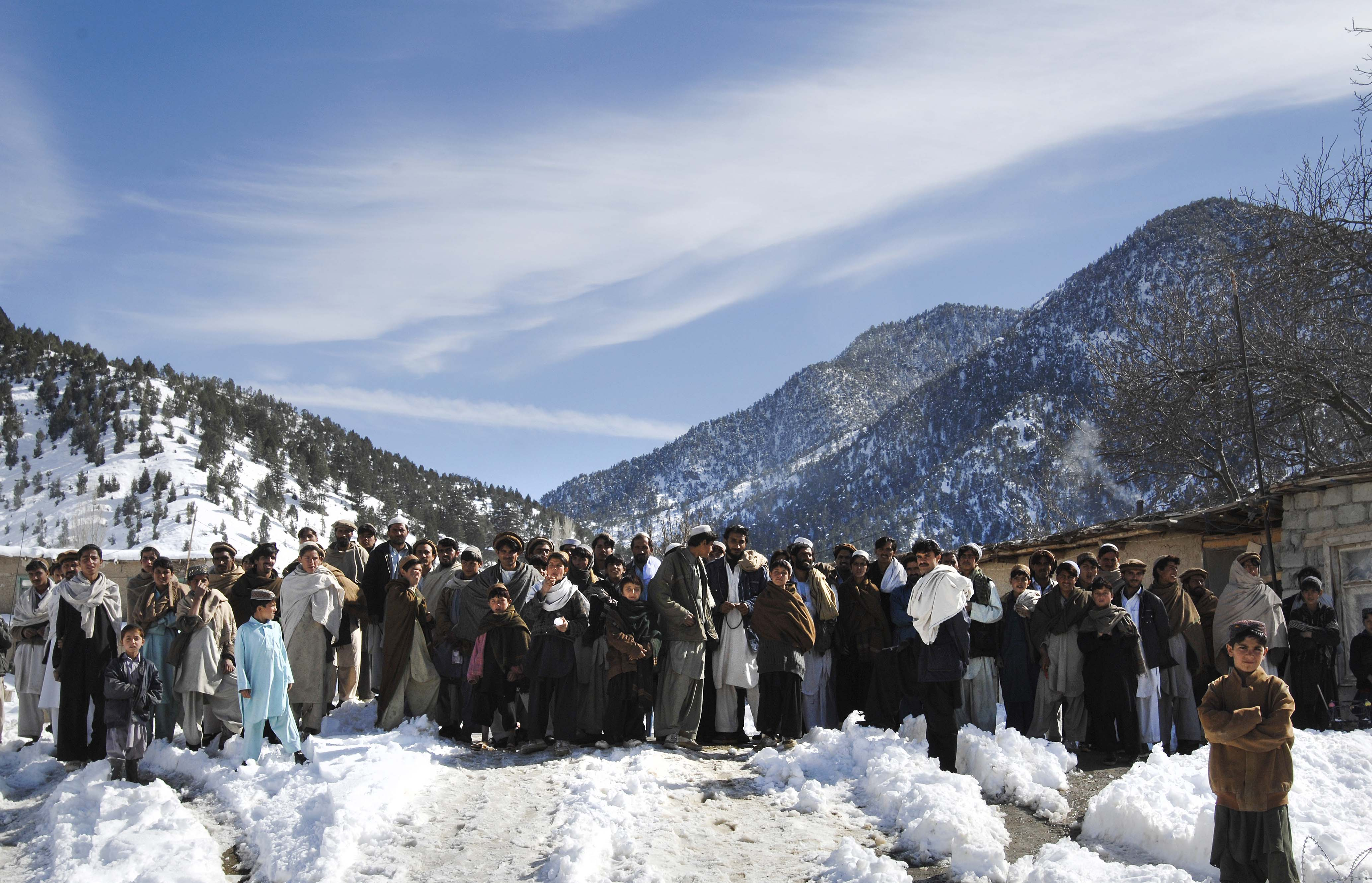 A crowd gathered to catch a glimpse of the Paktia Province deputy governor, a council member and a senior religious leader during their visit to the small village in the Jani Khel district on Feb. 15, 2009. All three have roots to the Mangal tribe that lives in the district.